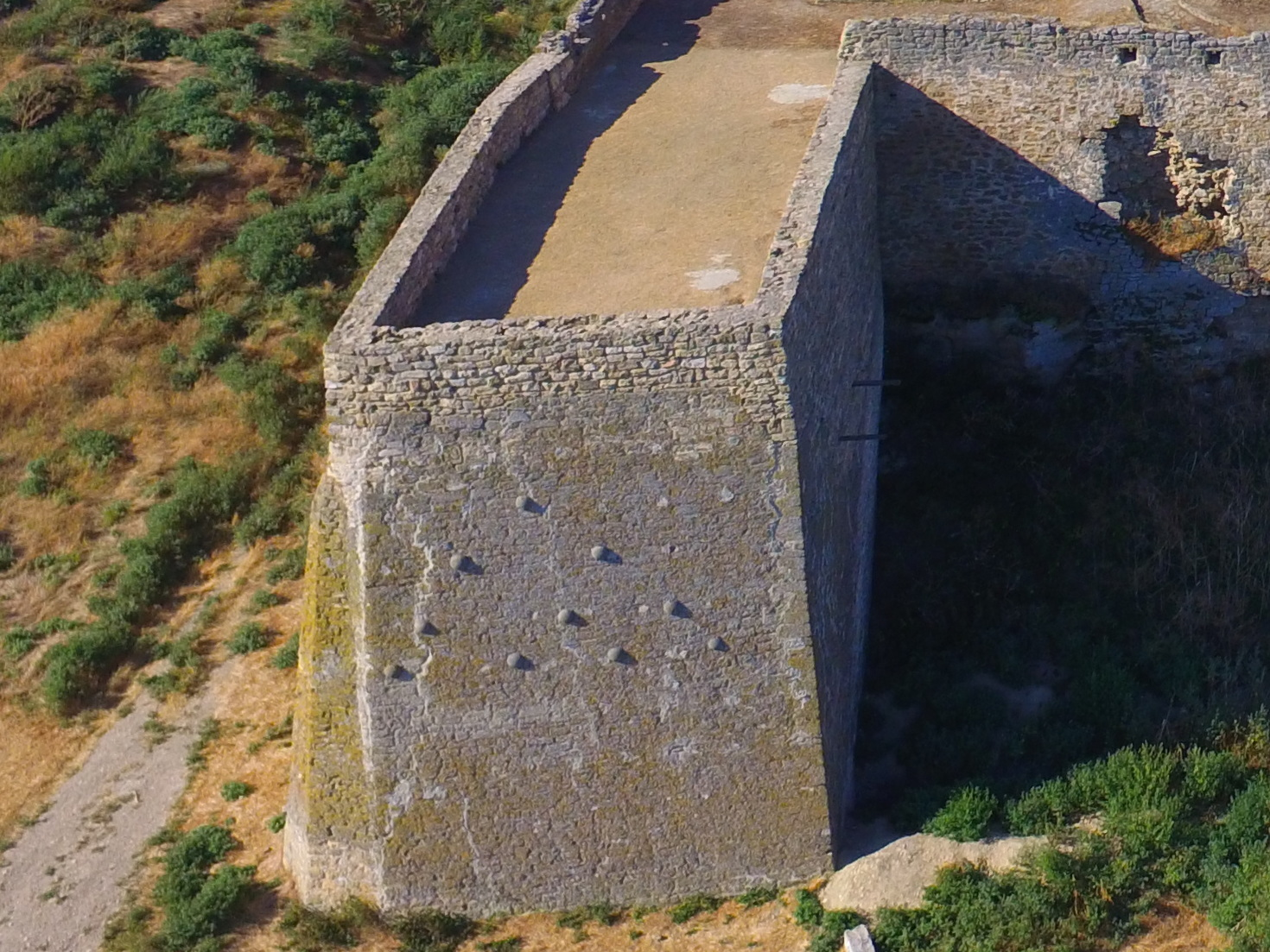 Stone cannonballs similar in shape to Tetractys on Bilhorod-Dnistrovskyi fortress wall.